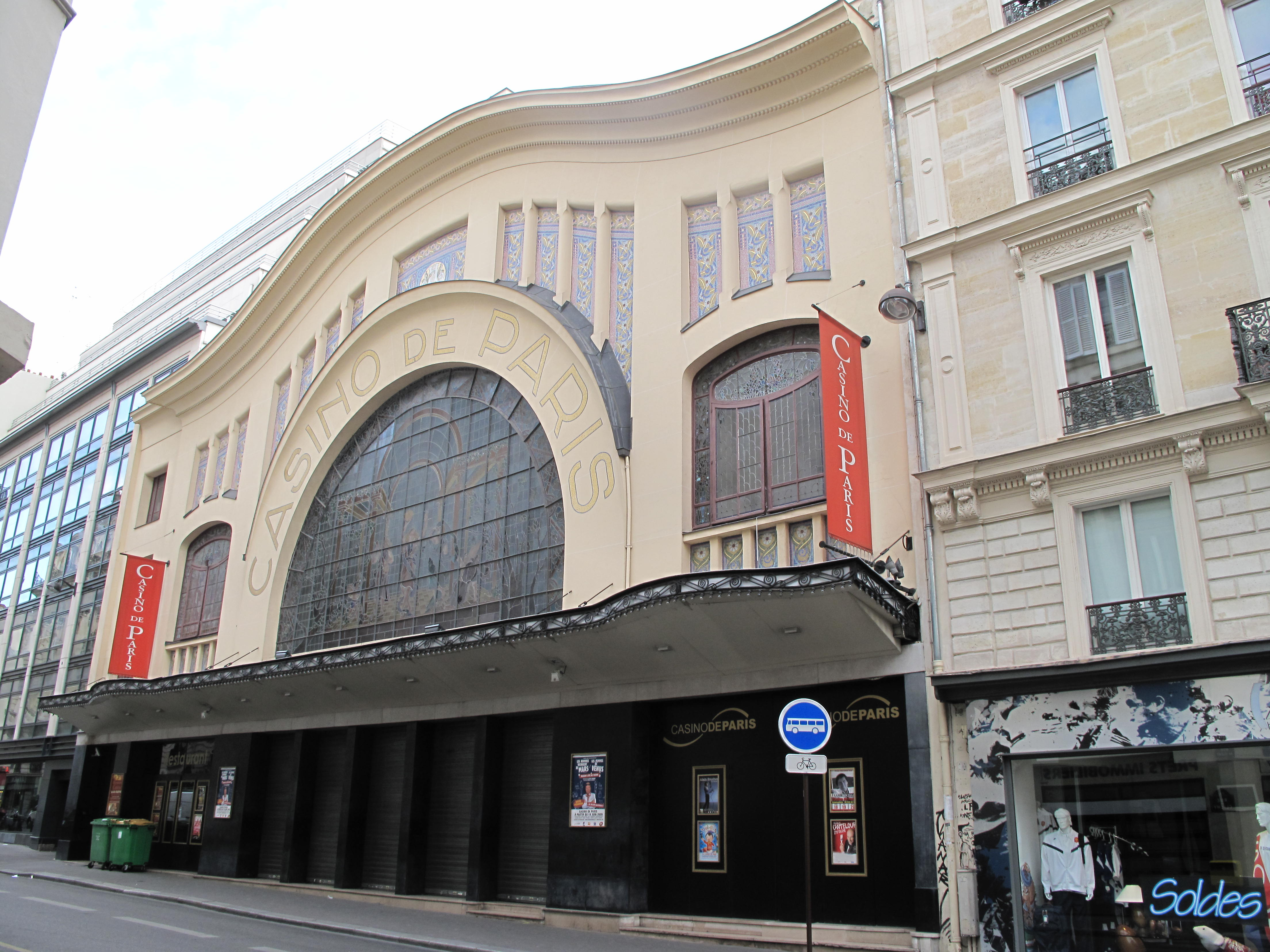 Facade of the Casino de Paris, rue de Clichy, Paris 9th arr.